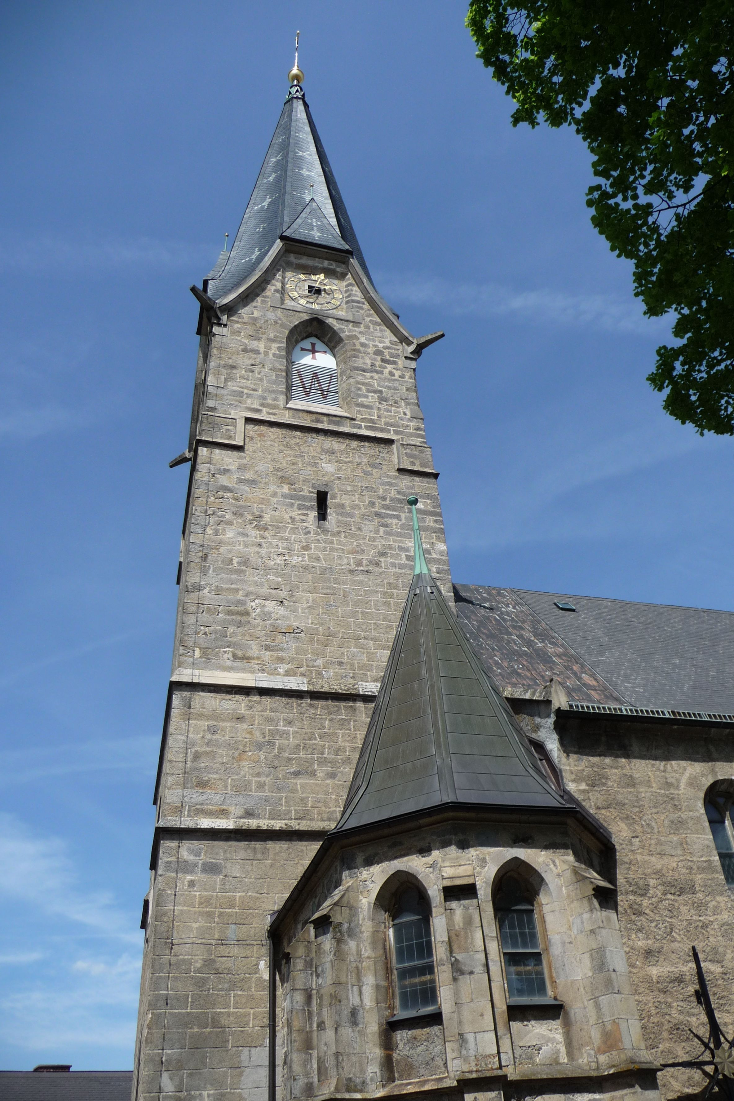 Church Tower of parish church Bad Leonfelden